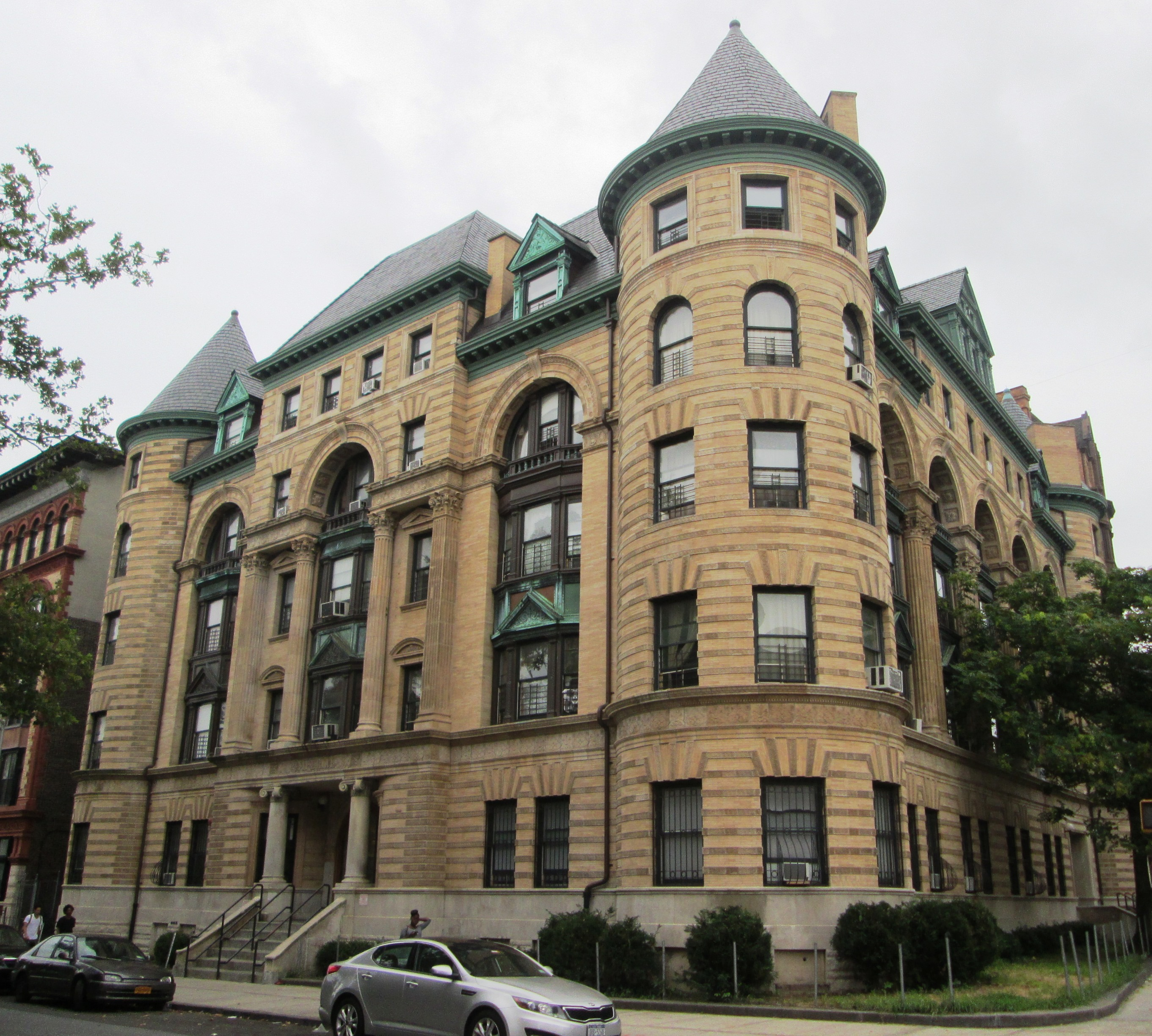 The Imperial Apartments at 1198 Pacific Street and 1327-39 Bedford Avenue on Grant Square in the Crown Heights neighborhood of Brooklyn, New York City was built in 1892 and was designed by Montrose W. Morris in the French Renaissance Revival style, featuring Corinthian terra-cotta columns and paired arches. The building was designated a NYC landmark in 1986, and was restored in 2006. The original very large apartments have now been sub-divided. The building is located in the Crown Heights North Historic District. (Sources: Guide to NYC Landmarks (4th ed.), AIA Guide to NYC (5th ed.) and NYCLPC HD Designation Report)